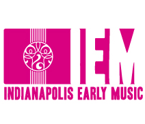 Indianapolis Early Music logo.